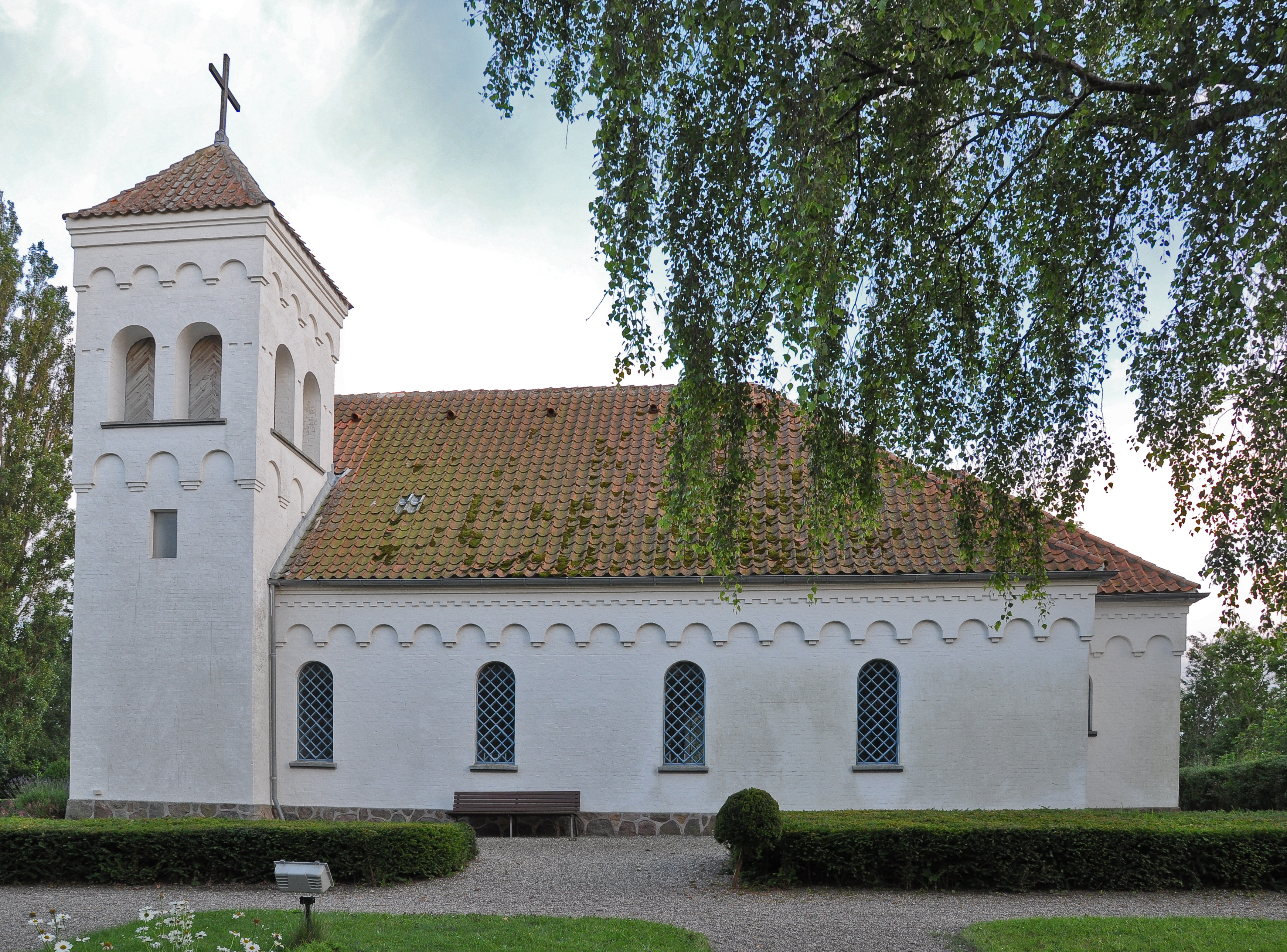 Ørby Church (Samsø Municipality, Denmark).